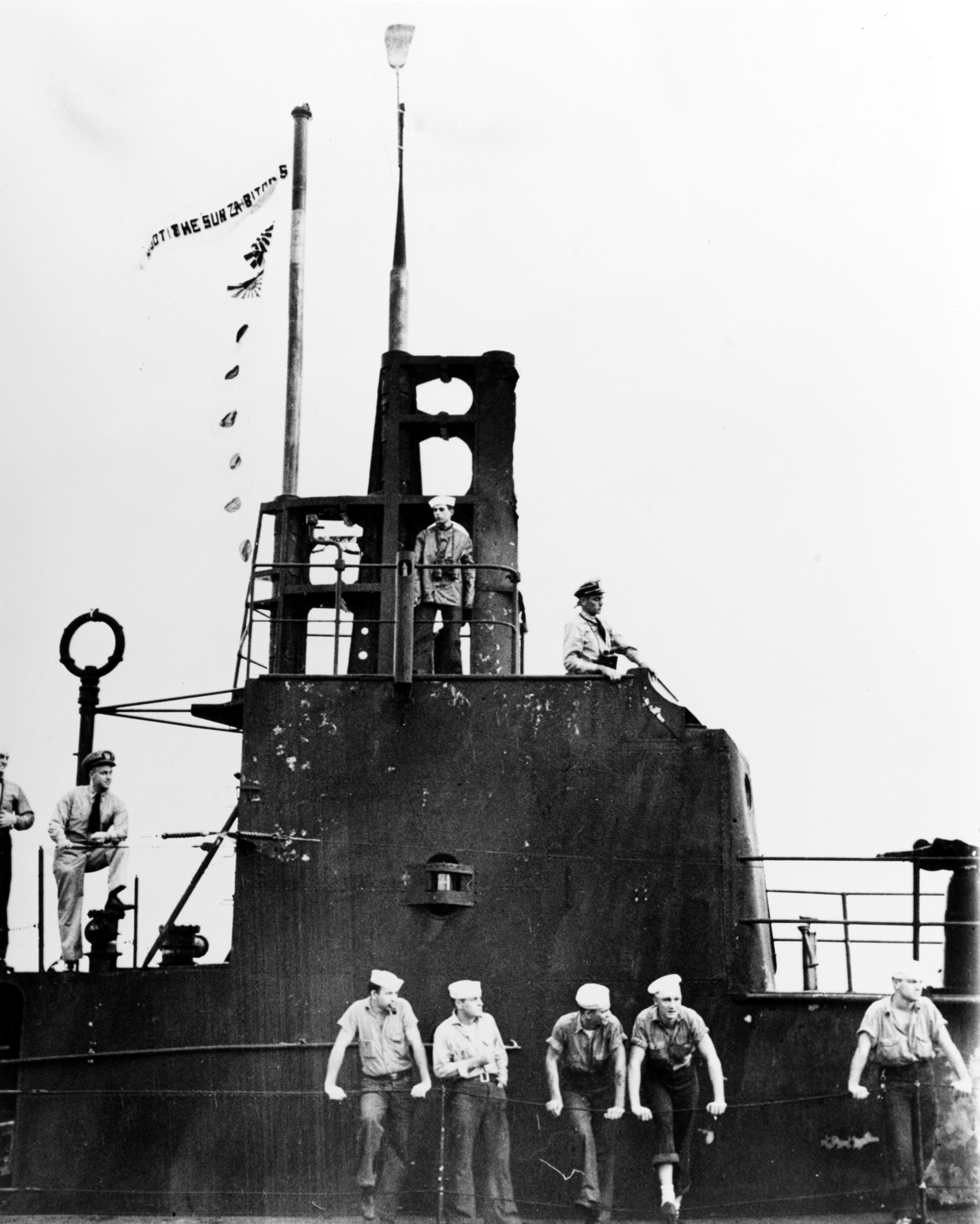 The U.S. Navy submarine USS Wahoo (SS-238) at Pearl Harbor, Hawaii (USA), soon after the end of her third war patrol, circa 7 February 1943. Her Commanding Officer, Lieutenant Commander Dudley W. Morton, is on the open bridge, in right center. The officer standing at left appears to be the Executive Officer, Lieutenant Richard H. O'Kane. Note: the broom lashed to the periscope head, indicating a clean sweep of enemy targets encountered; the pennant bearing the slogan "Shoot the sunza bitches" and eight small flags, representing claimed sinkings of two Japanese warships and six merchant vessels. Note that the forward radar mast, mounted in front of the periscope shears, has been censored out of this photograph.